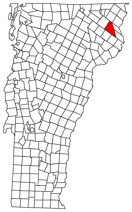 Map of Vermont towns with Ferdinand highlighted